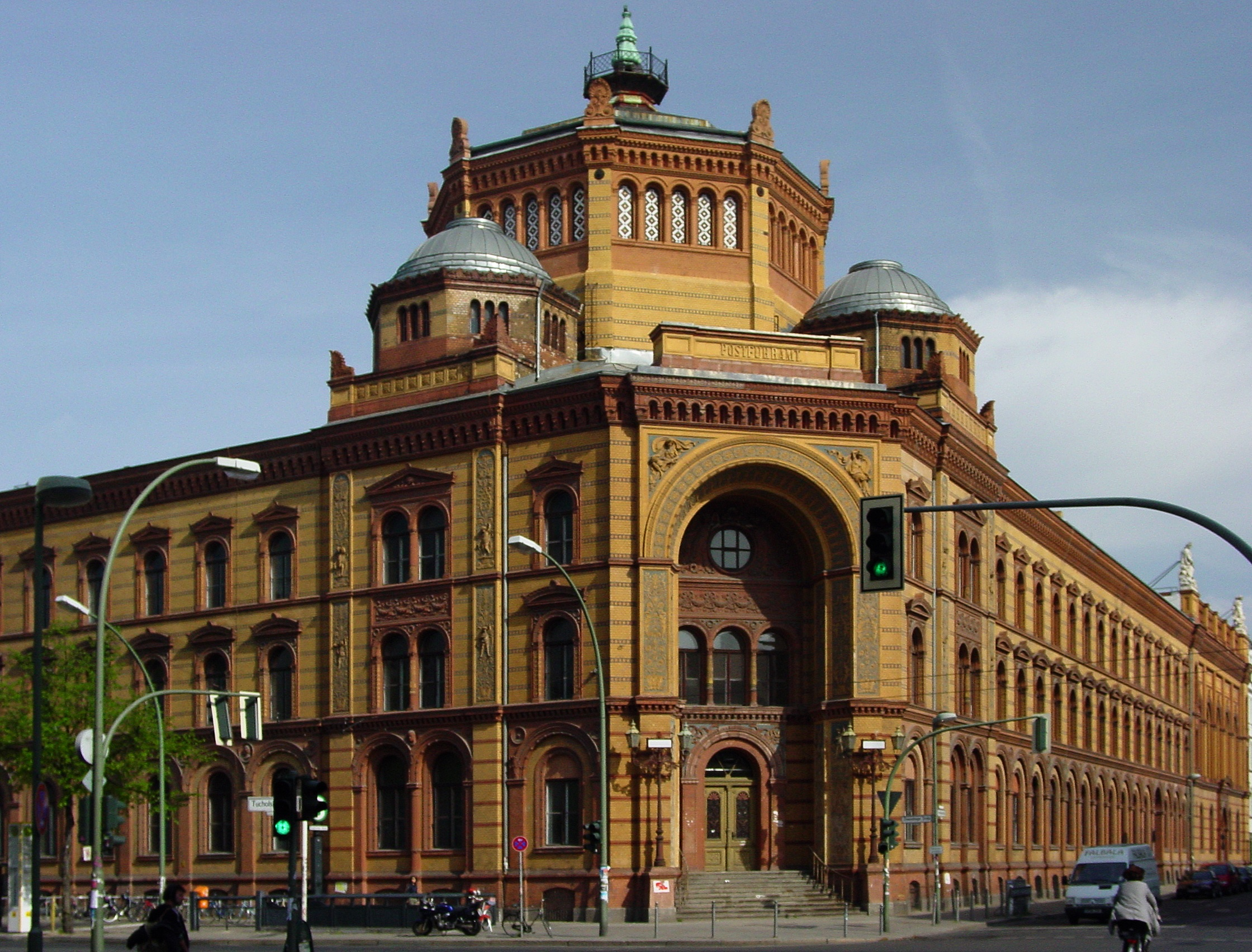 The Berlin Postfuhramt, on Oranienburger Straße and east of Friedrichstraße.